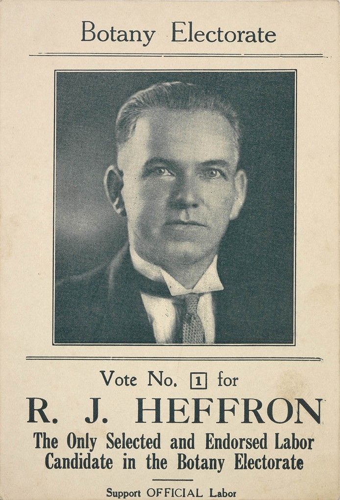 Election pamphlet of Robert James Heffron, as the Australian Labor Party candidate for the seat of Botany at the 1927 NSW state election.